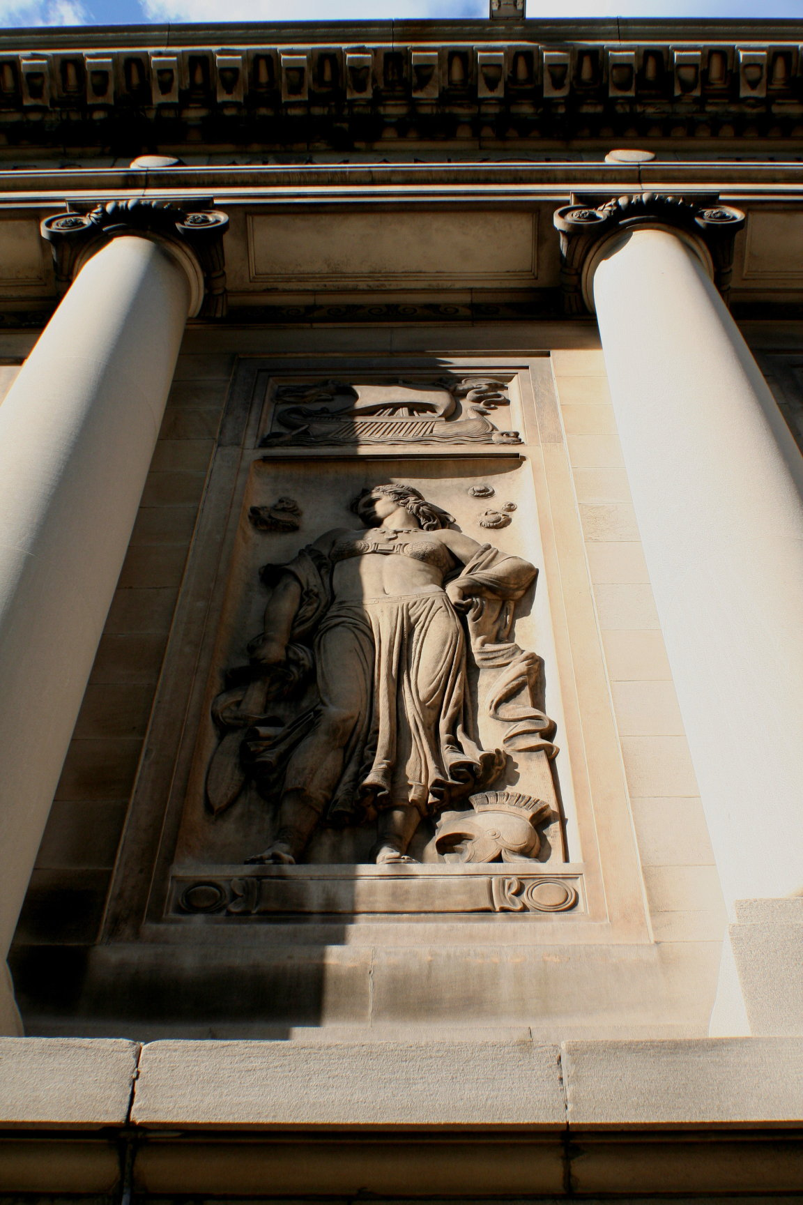 Relief on wall of Hispanic Society of America facing 155th Street, Washington Heights, New York City.